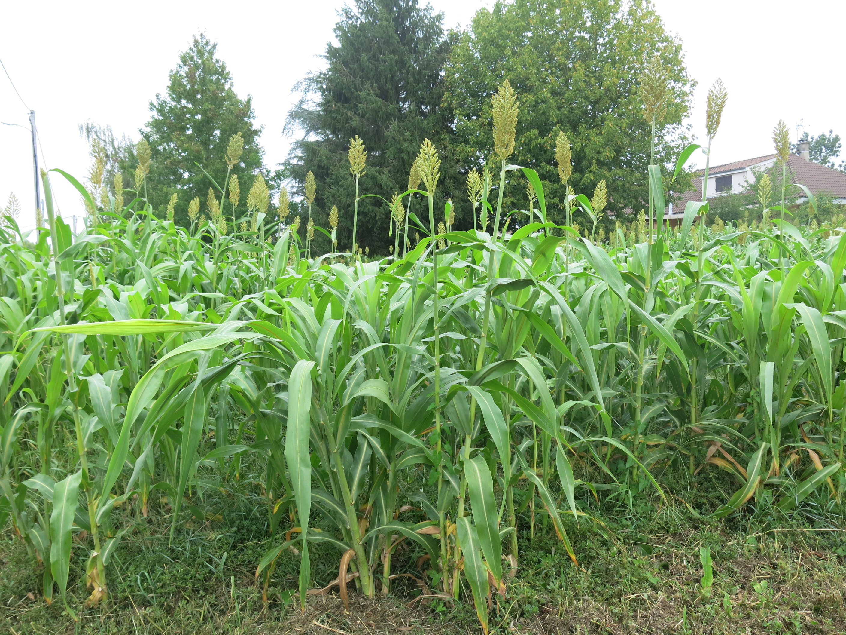 Broomcorn field in Sermoyer (Ain, France)